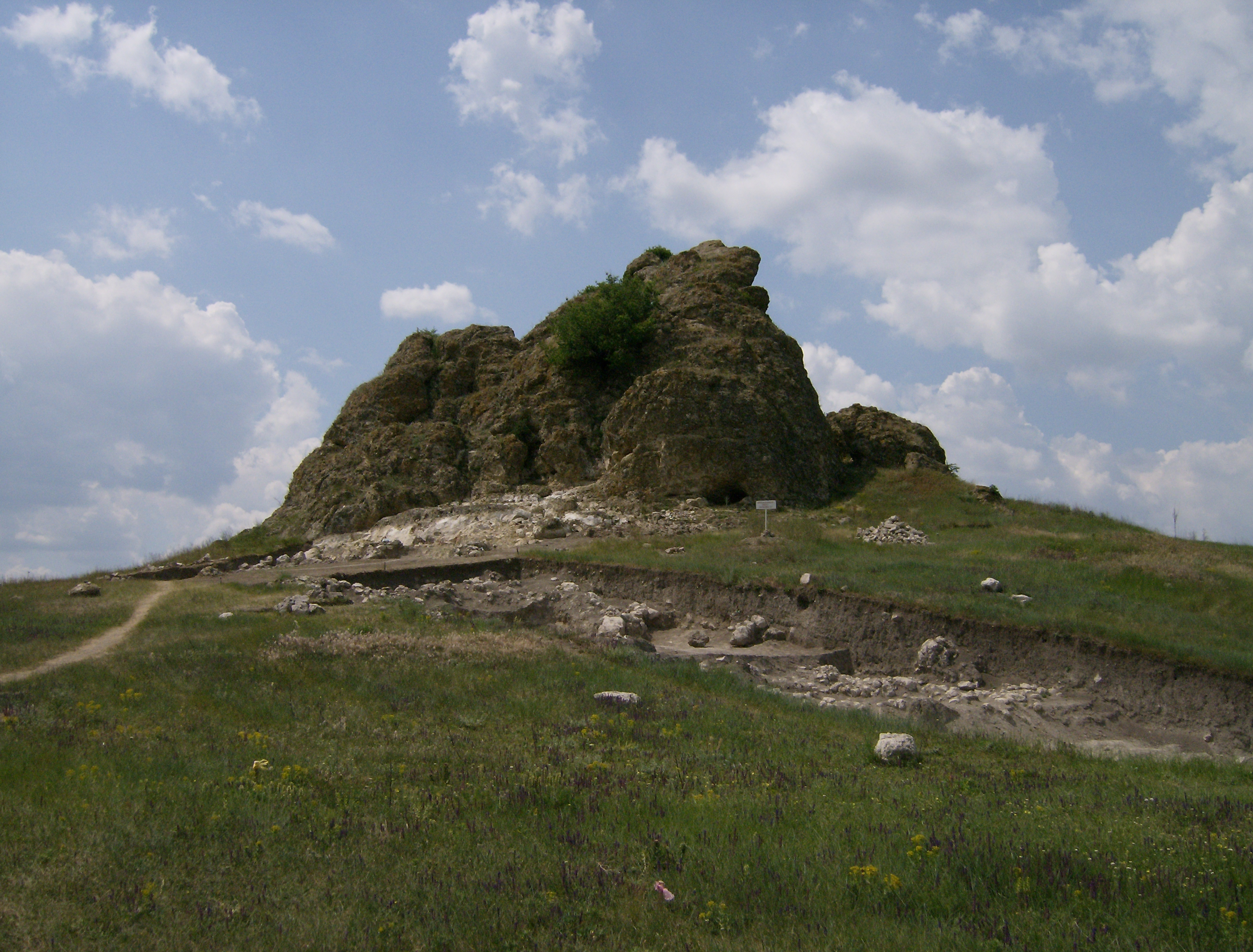 Red rock Zivkovo